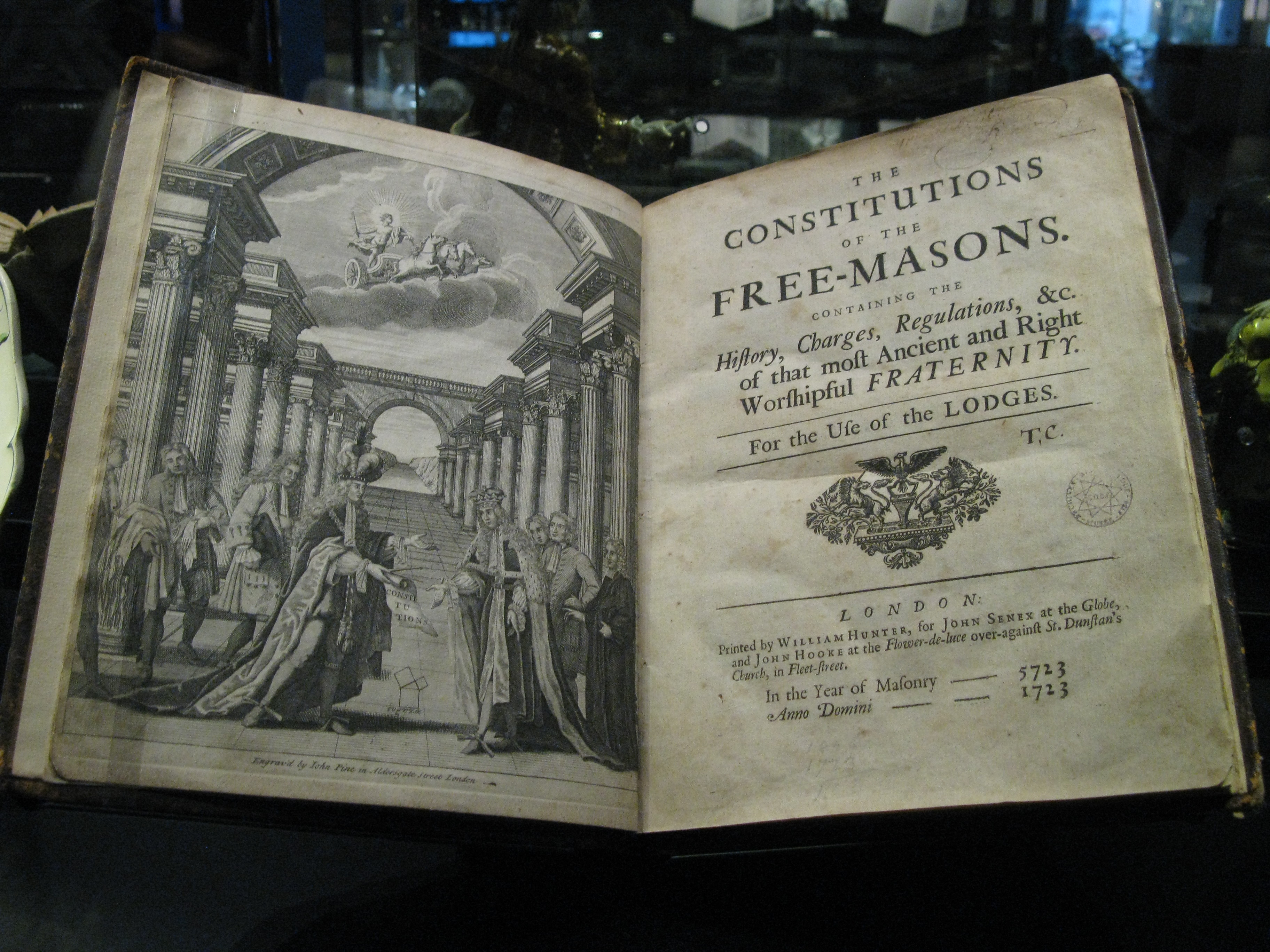 Masonic Old Charges constitution